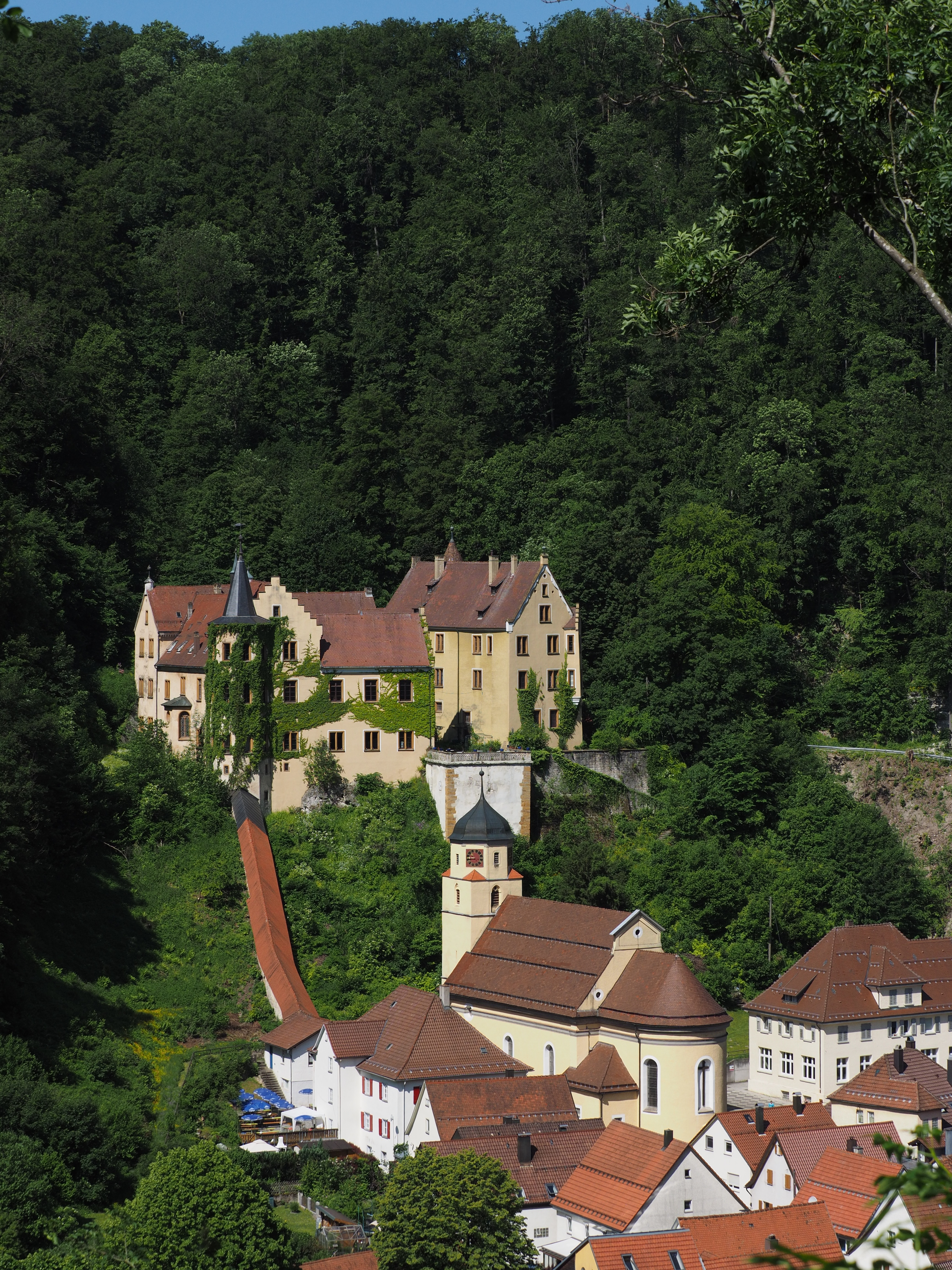 Schloss Weißenstein (Weißenstein castle) and parish church, Lauterstein, Germany